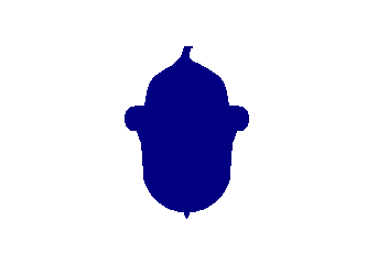 XIV Corps, Army of the Cumberland, 3rd Division Badge